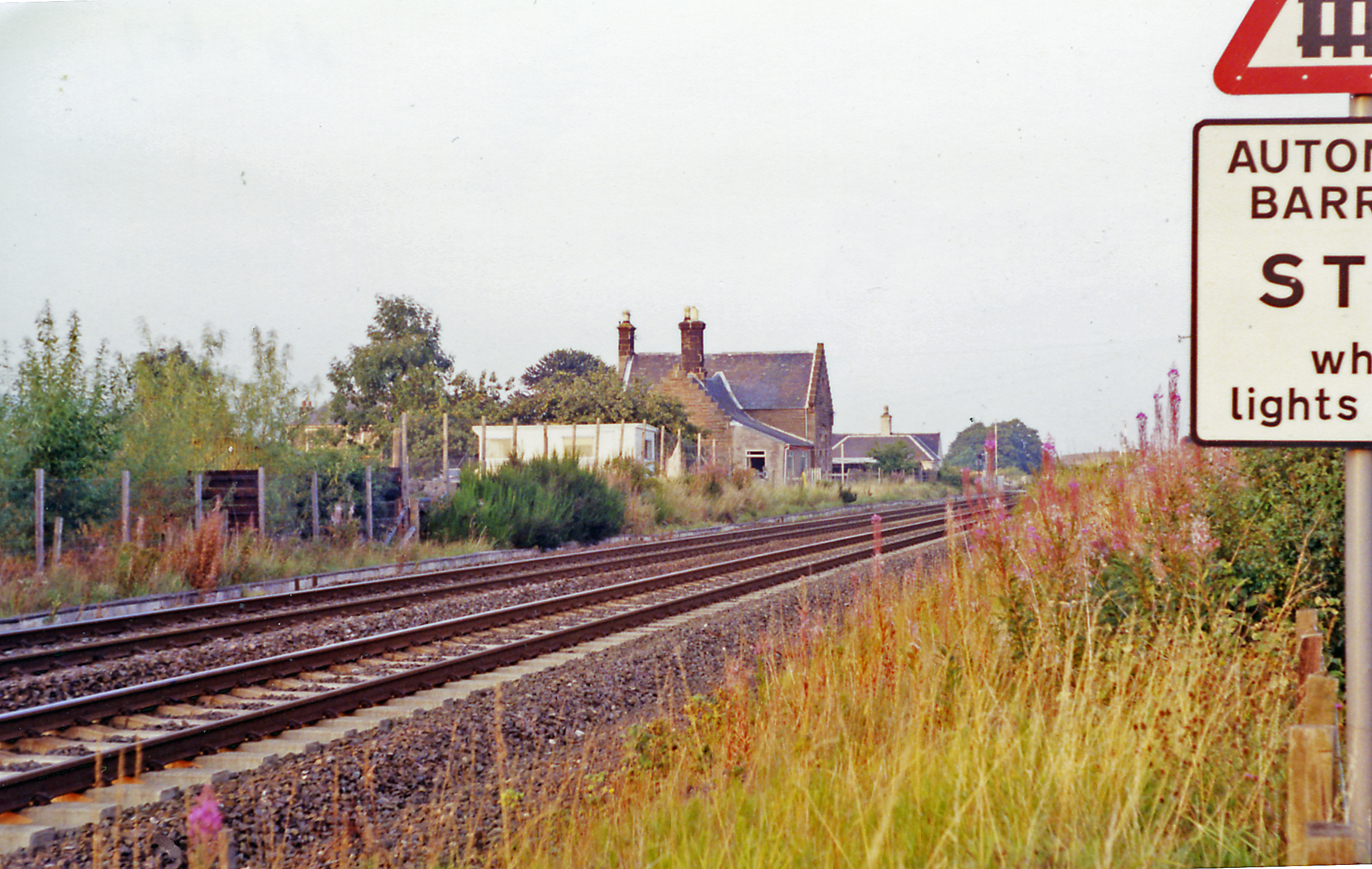 Former station at Forteviot, 1991. View eastward, towards Perth etc.: ex-Caledonian Railway Glasgow etc. - Stirling - Perth etc. main line. The station was closed to passengers 11/6/56, to goods 23/5/66, but the main line has remained to Perth, Inverness etc., also Dundee but not to Aberdeen.